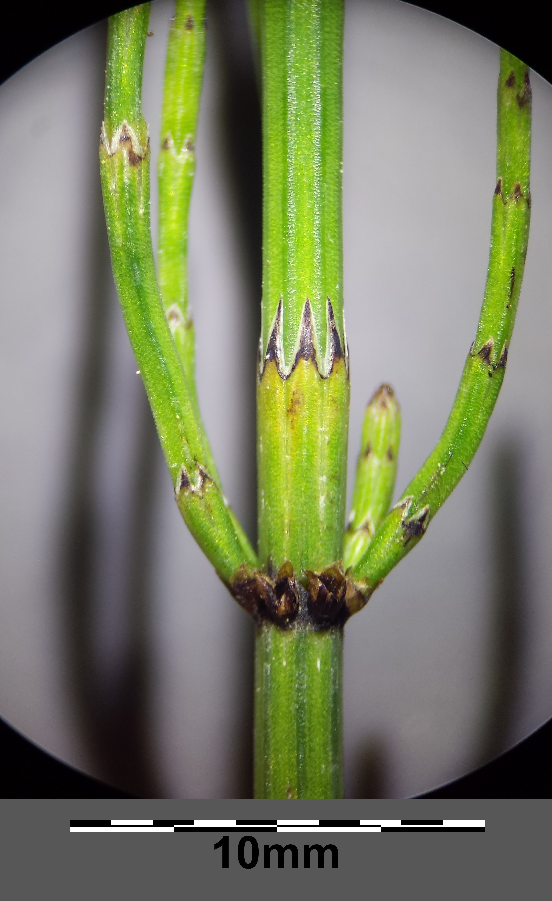 Stem with branches Taxonym: Equisetum palustre ss Fischer et al. EfÖLS 2008 ISBN 978-3-85474-187-9 Location: near Praunsberger Wald near Niederhollabrunn, district Korneuburg, Lower Austria - ca. 300 m a.s.l. Habitat: wet meadows